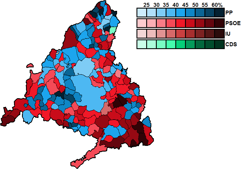 Most-voted party in Madrid municipalities, showing vote share obtained, in the Spanish general election, 1989.